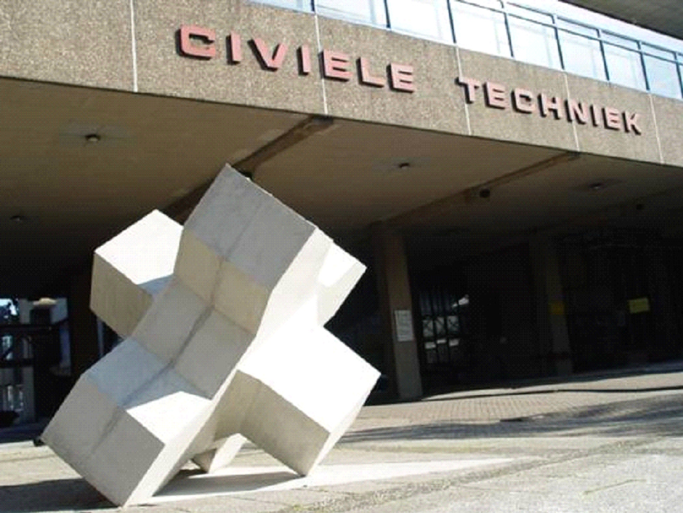 Xbloc in front of the CiTG building of TU Delft. This block has been used for full-scale crash tests and rocking tests